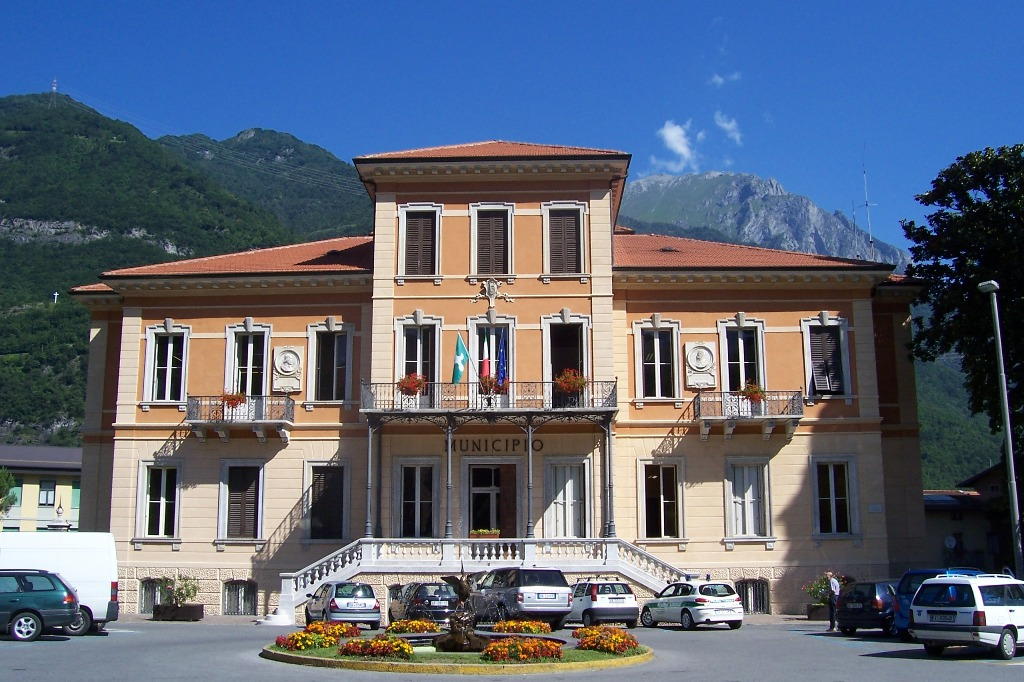 Former Ronchi's house, now the town hall of Breno. Breno, Val Camonica